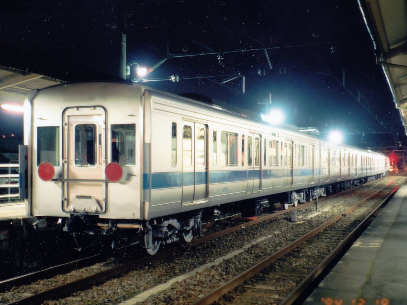 2000 Odakyu type train transporting at Matsuda Sta.